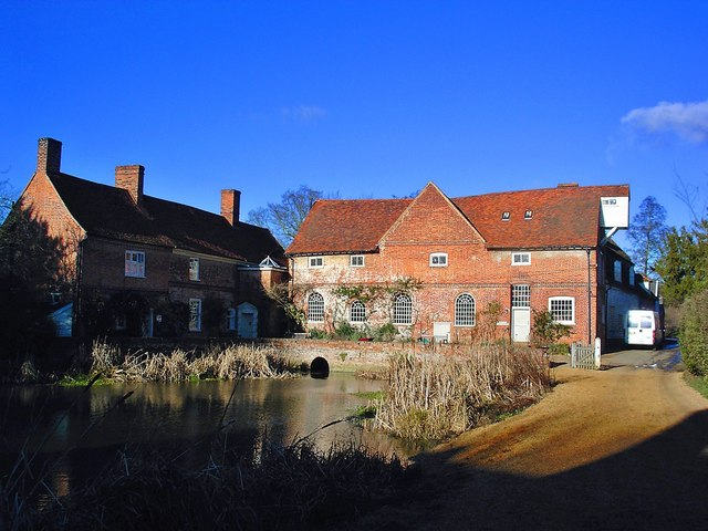 Flatford Mill